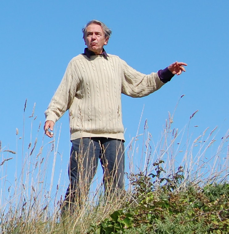 Portrait of Jacques Rancière